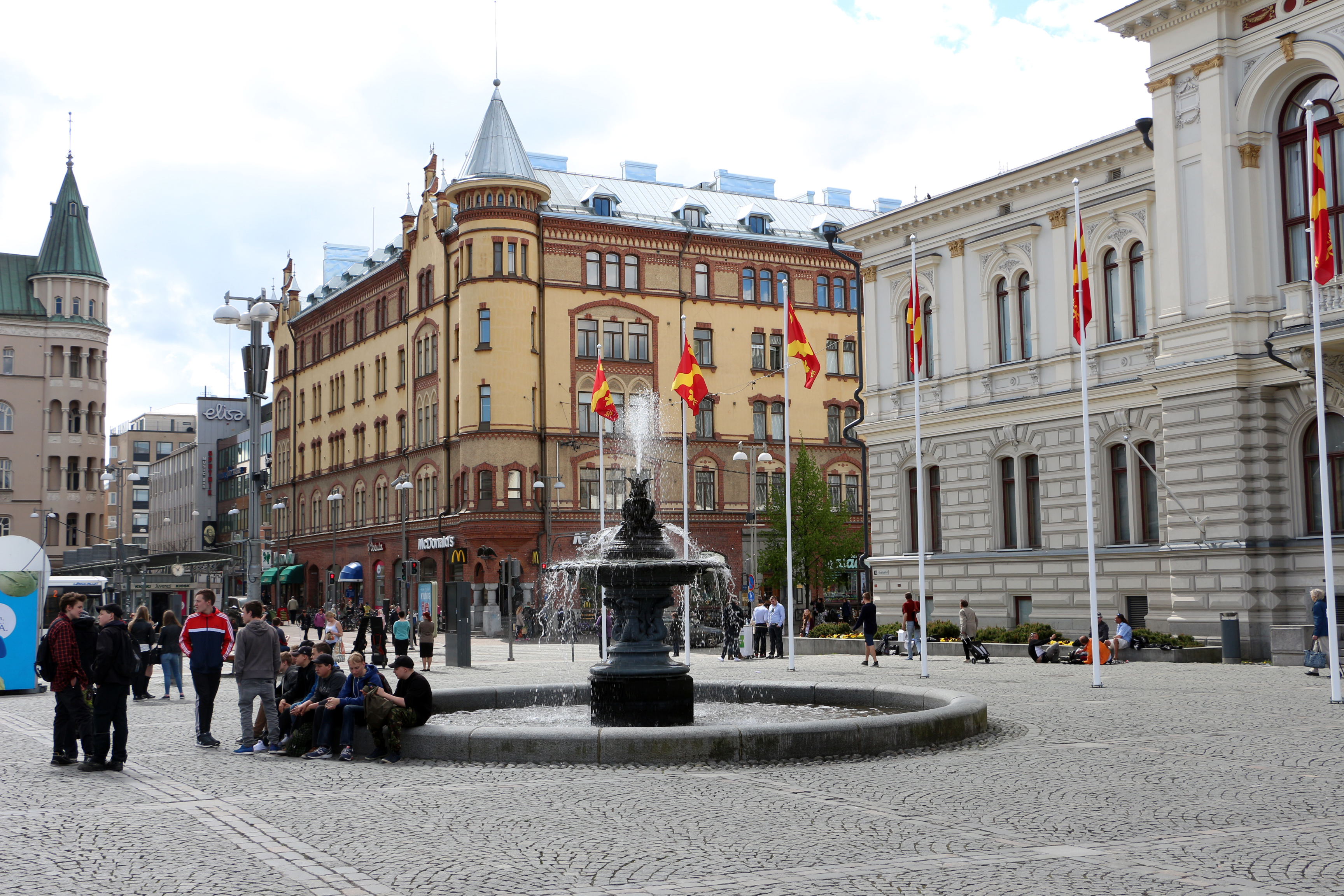 Tampere